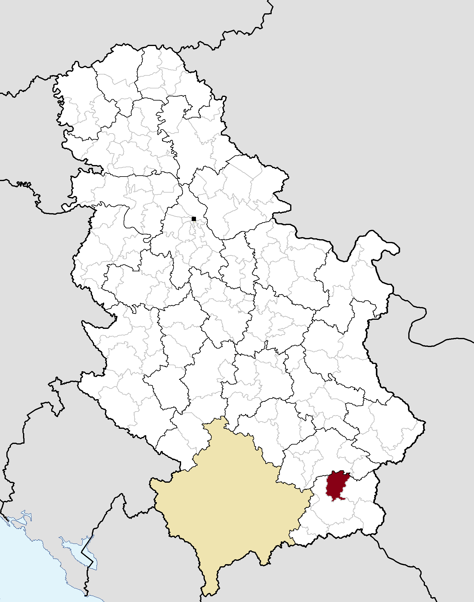 Municipal location in Serbia